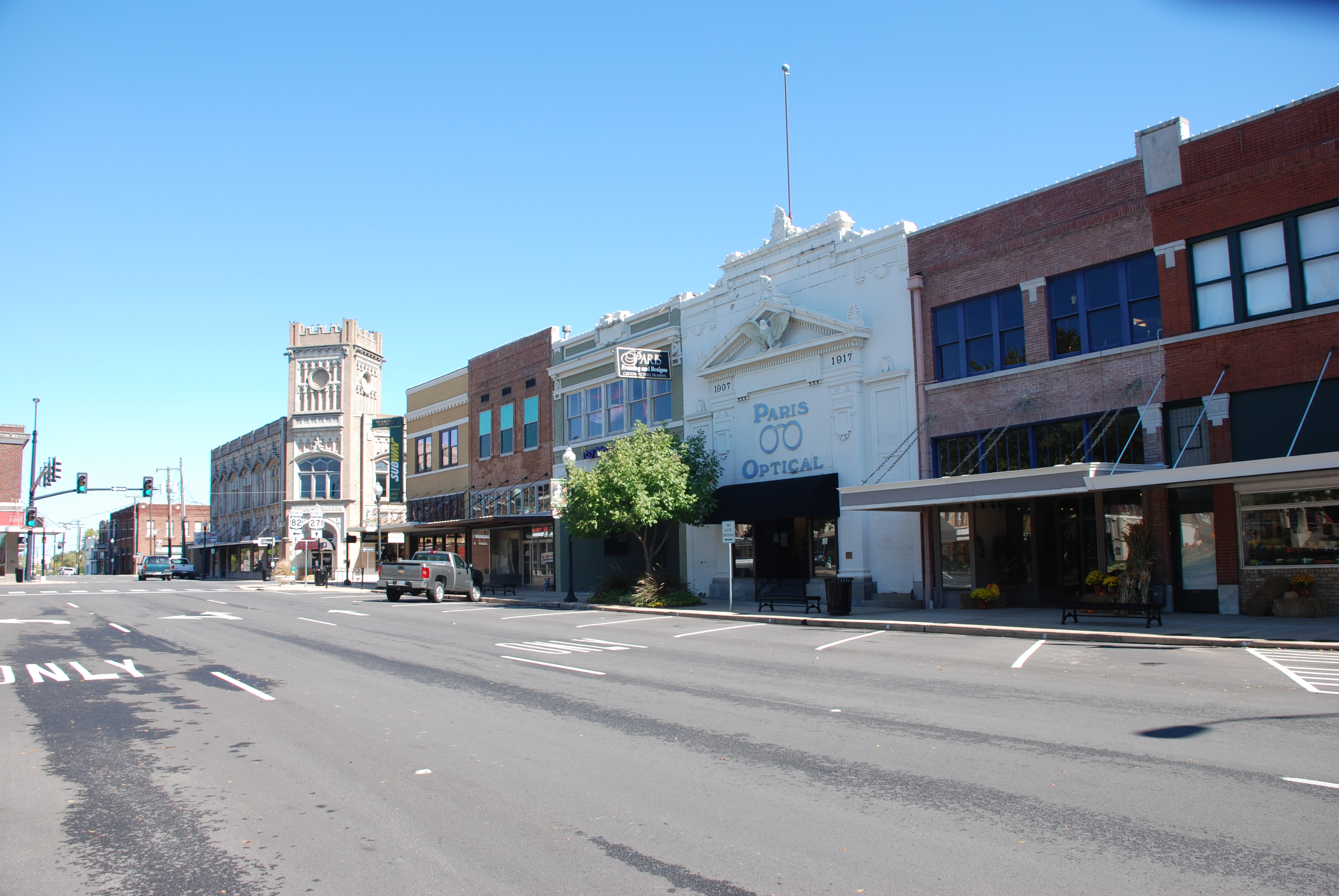 Main Street at The Plaza, Paris (Texas, USA)